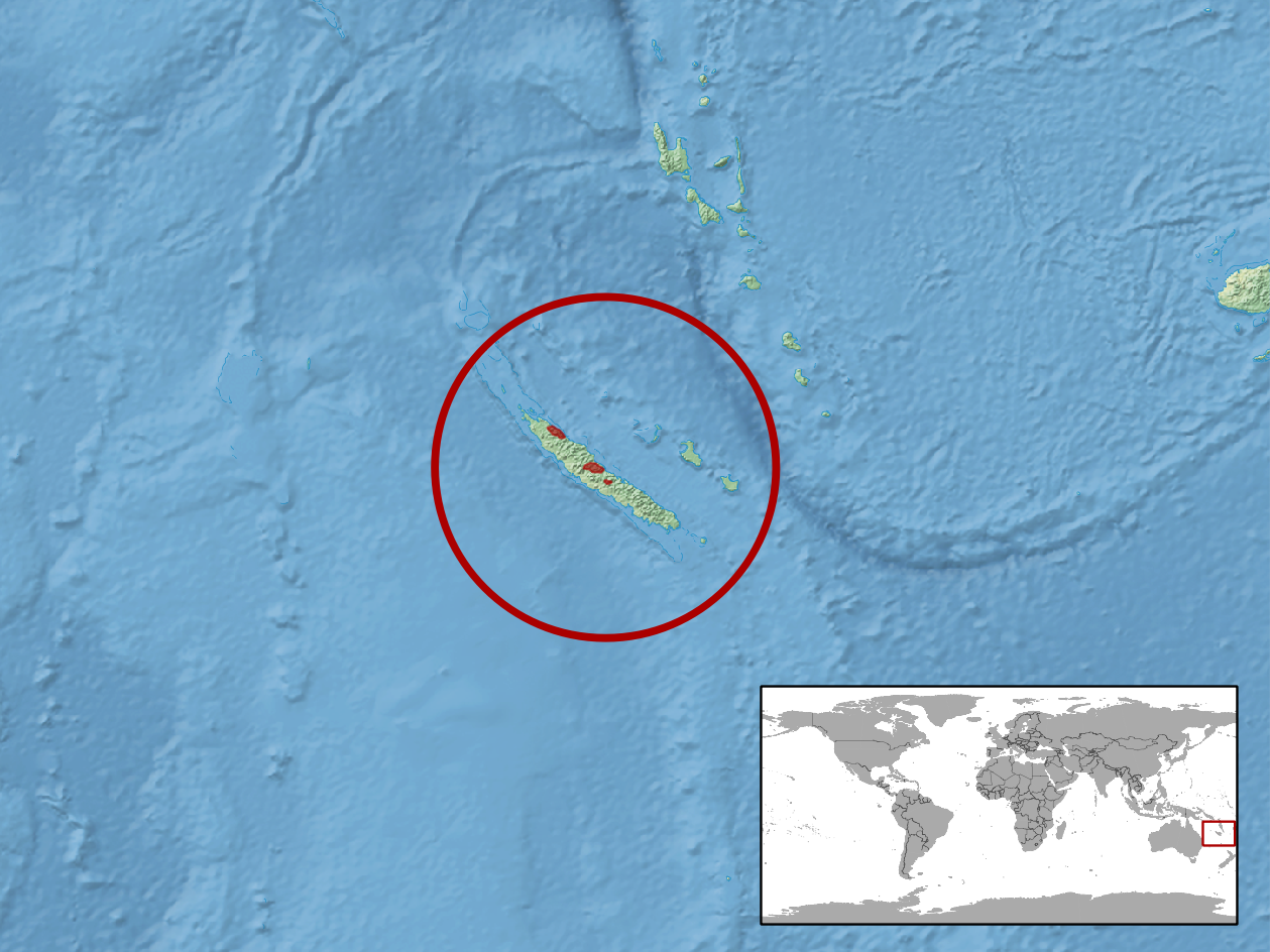 geographic distribution of Lioscincus steindachneri